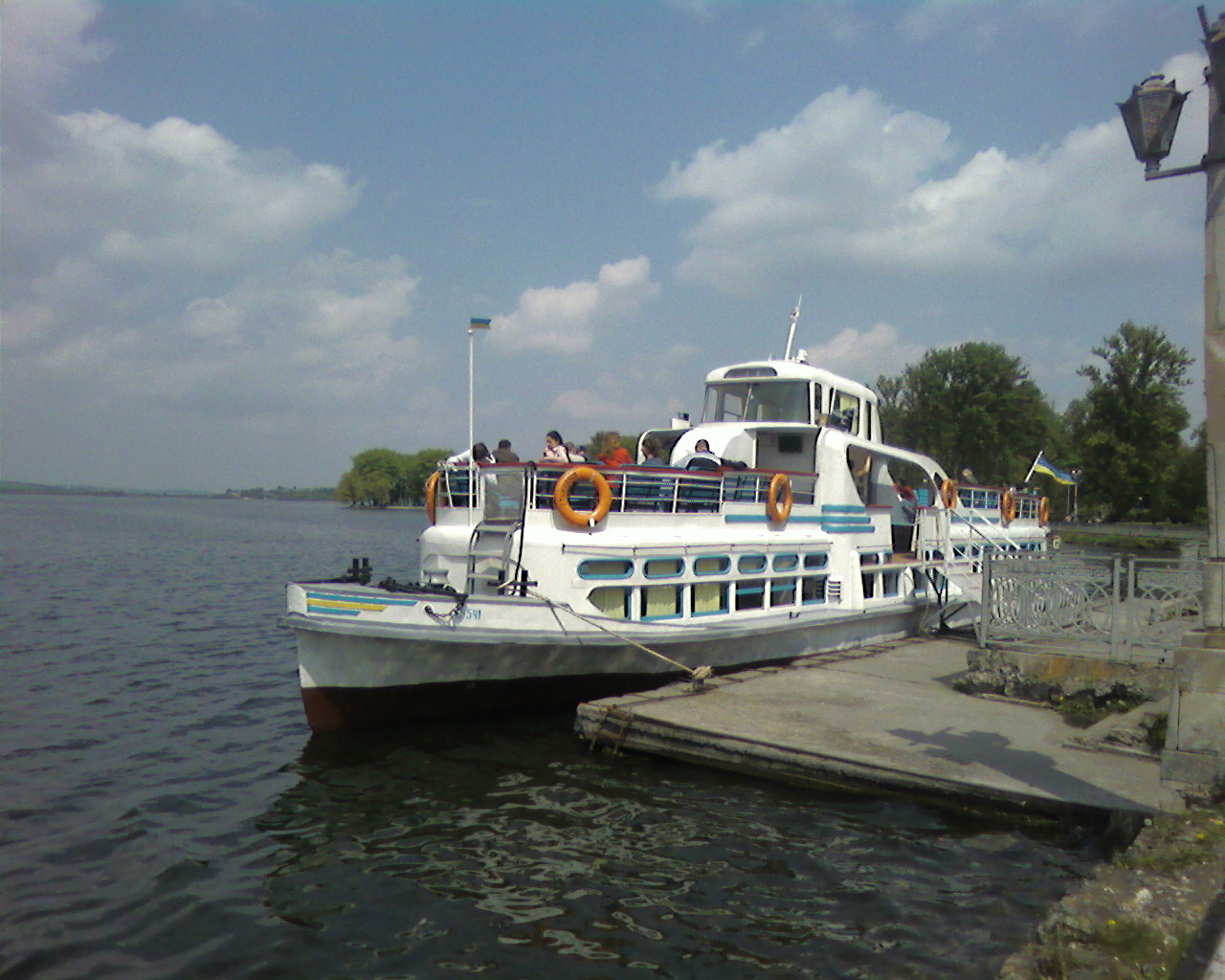 Ship Geroy Tantsorov